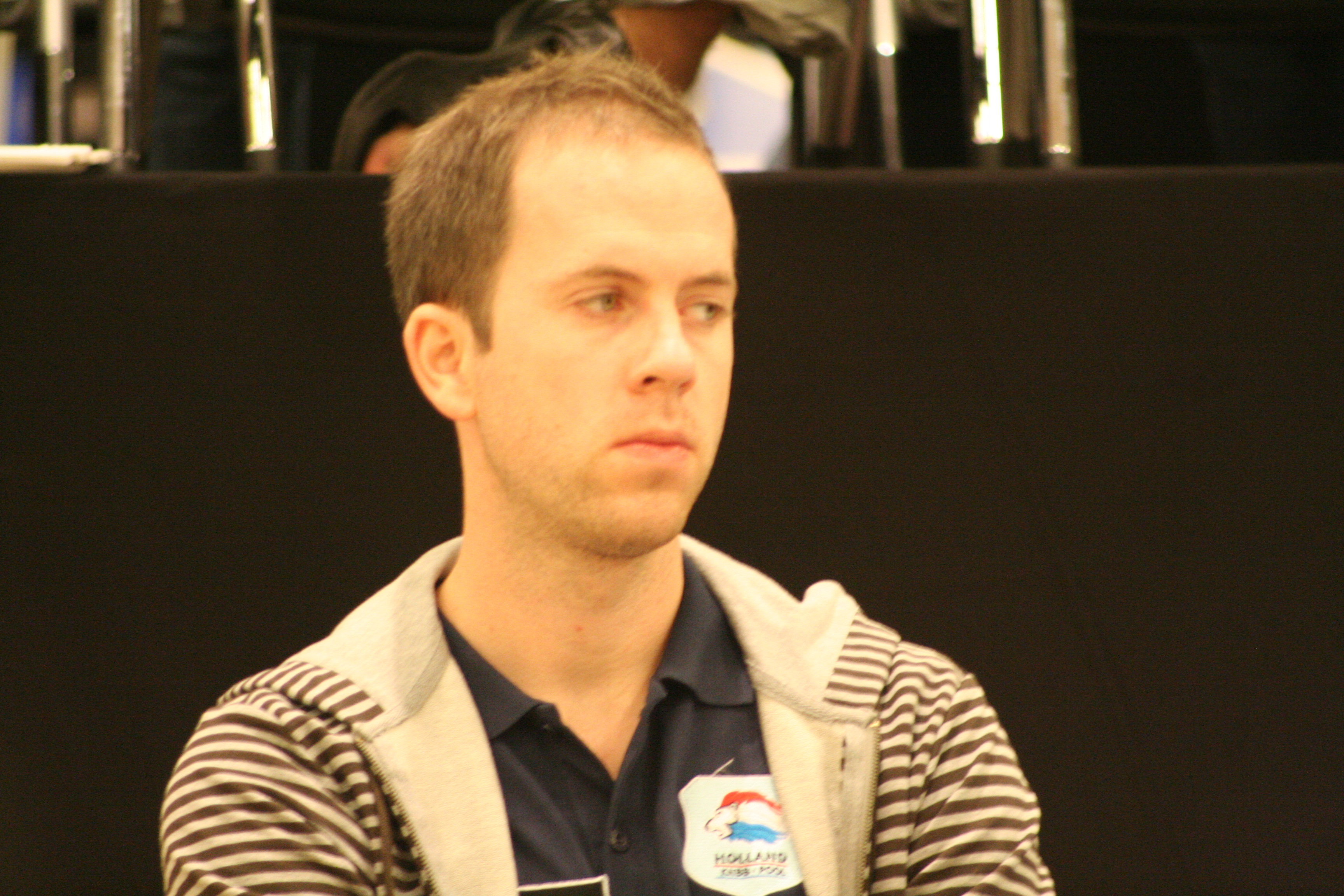 Dutch pool player Nick van den Berg at the European Pool Championship 2008 in Willingen, Germany.